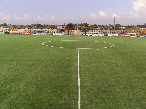 Stadium Cuty monge